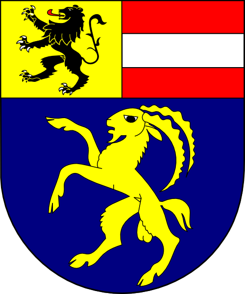 Coat of arms (shield only) of Markus Sittikus von Hohenems, archbishop of Salzburg, Austria (1612 - 1619).